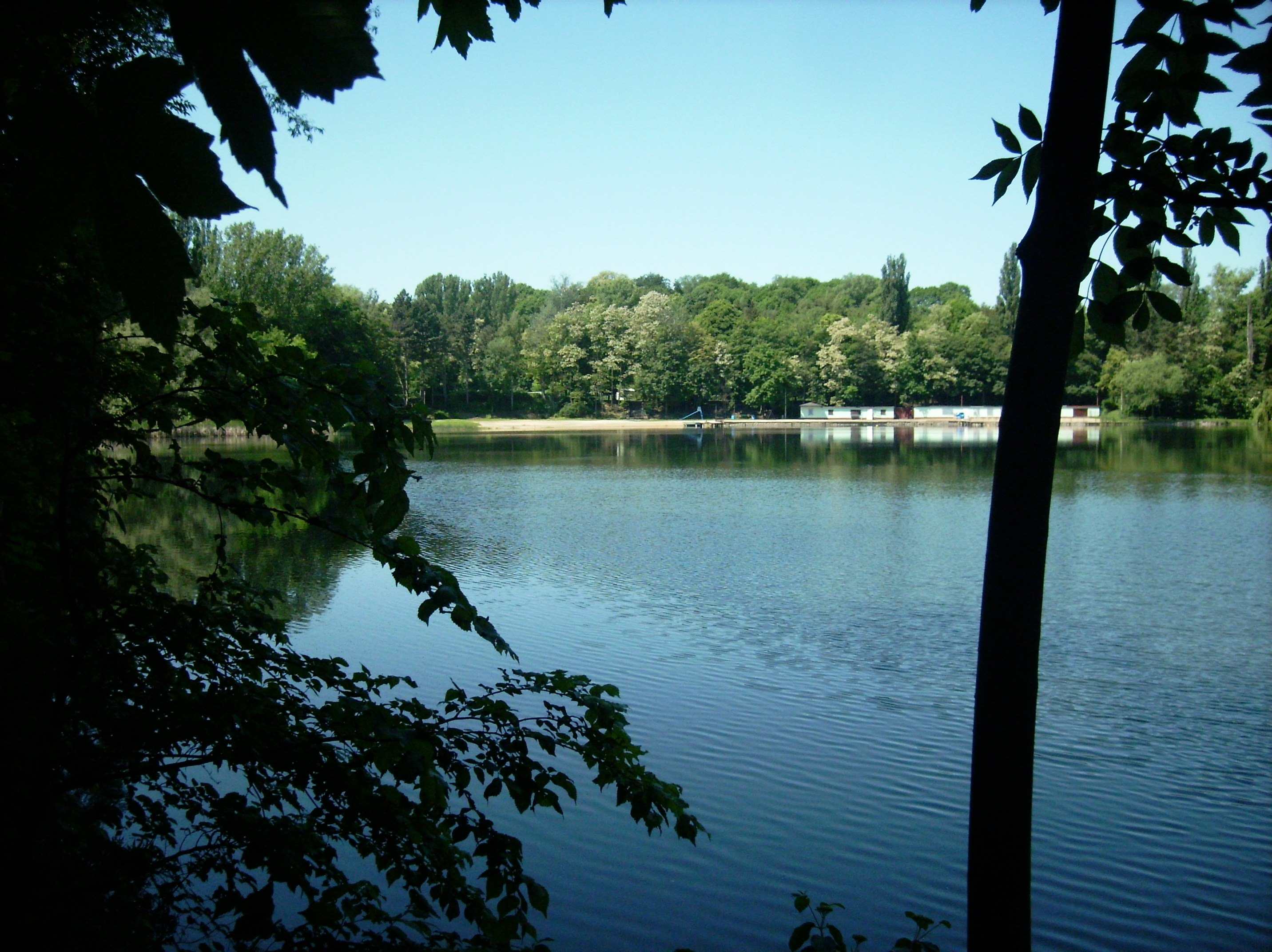 Lake Auensee near Granschütz (Hohenmölsen, district of Burgenlandkreis, Saxony-Anhalt)